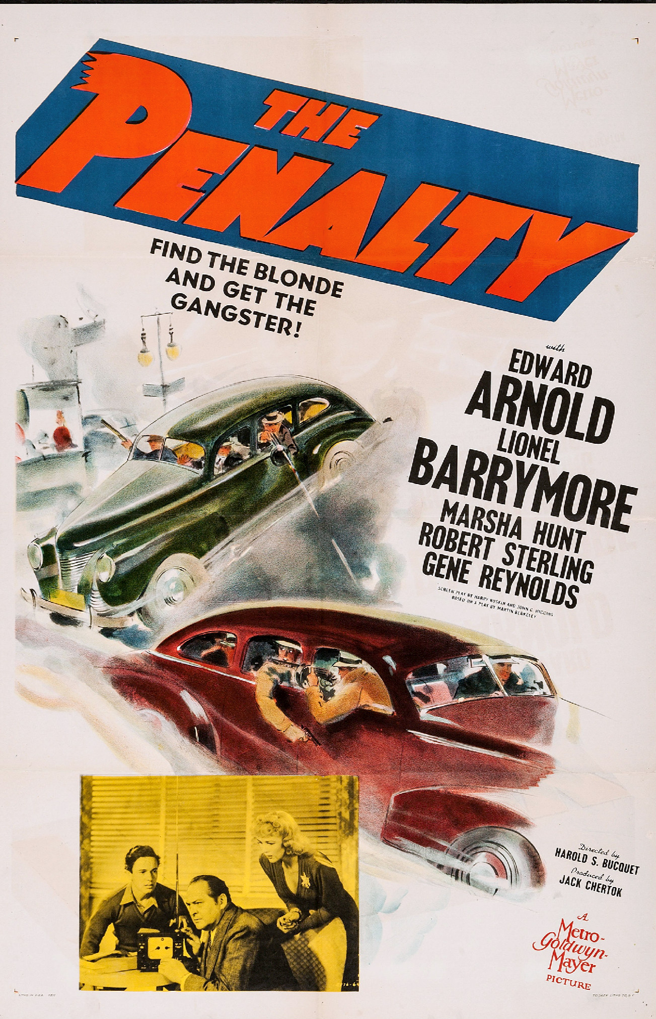 Poster for the 1941 film The Penalty. The item has no copyright markings on it as can be seen in the links above. At bottom left is made in USA, {looks like} 4870, and Tooker Litho Co., NY-they printed the poster.